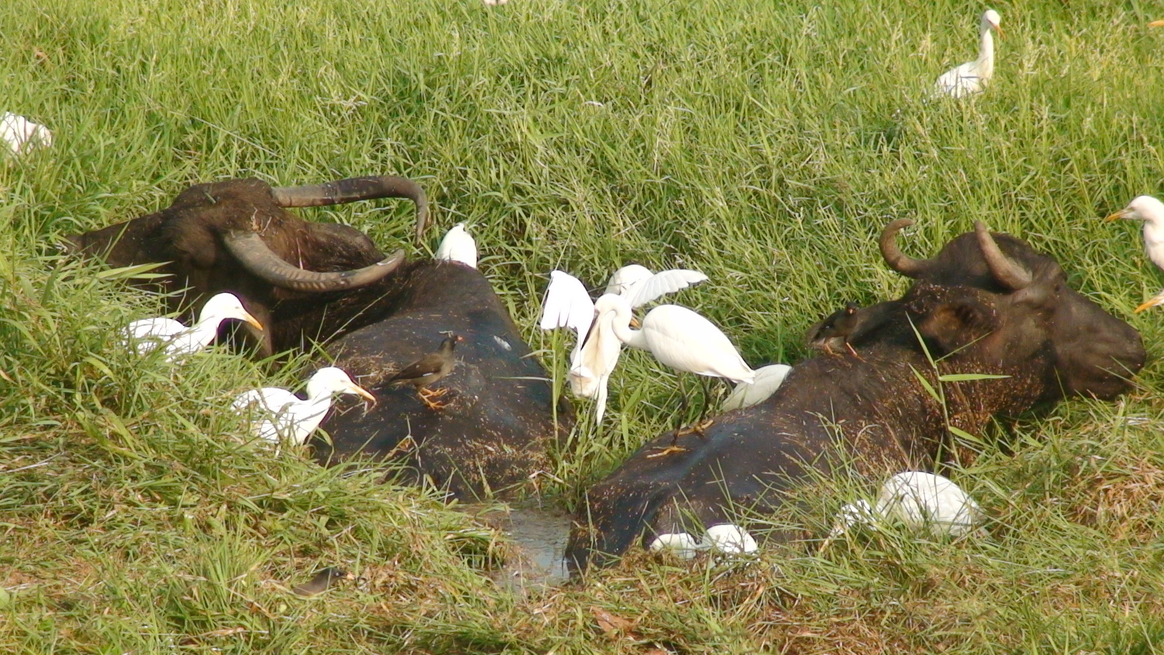 Eastern Cattle Egrets (one Little Egret too) feeding off insects around Buffalos